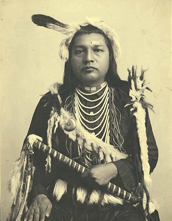 Paul Shoaway, Umatilla Indian, in ceremonial dress, Washington, ca. 1897 Photographer: La Roche, Frank Subjects (LCSH): Showaway, Paul--Associated objects Portraits--Washington (State) Umatilla Indians--Clothing & dress Digital Collection: Frank La Roche Photograph Collection Item Number: LAR139 Persistent URL: Visit Special Collections page for information on ordering a copy. University of Washington Libraries. Digital Collections